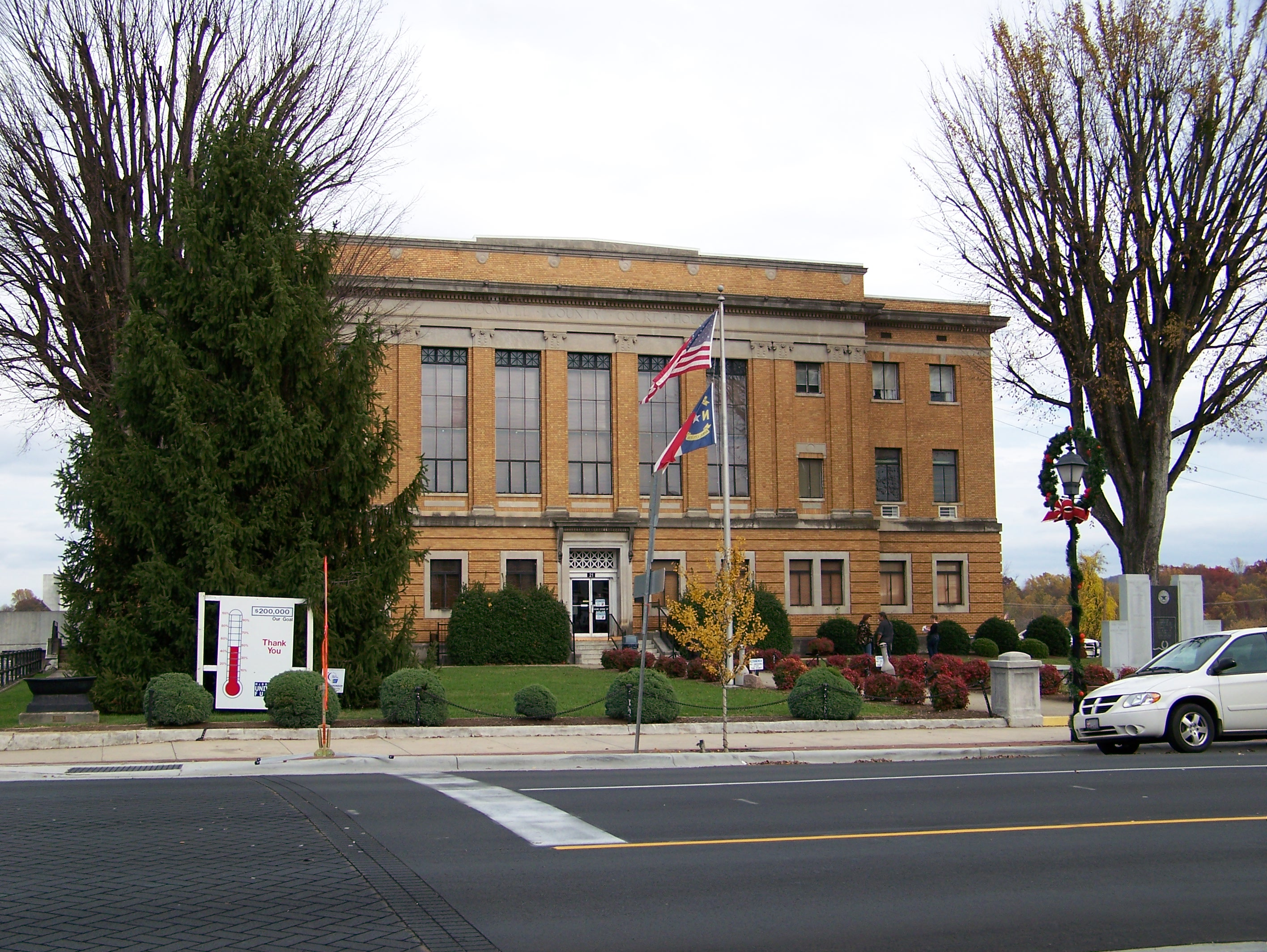 Individually listed on the NRHP and a contributing property to the Main Street Historic District